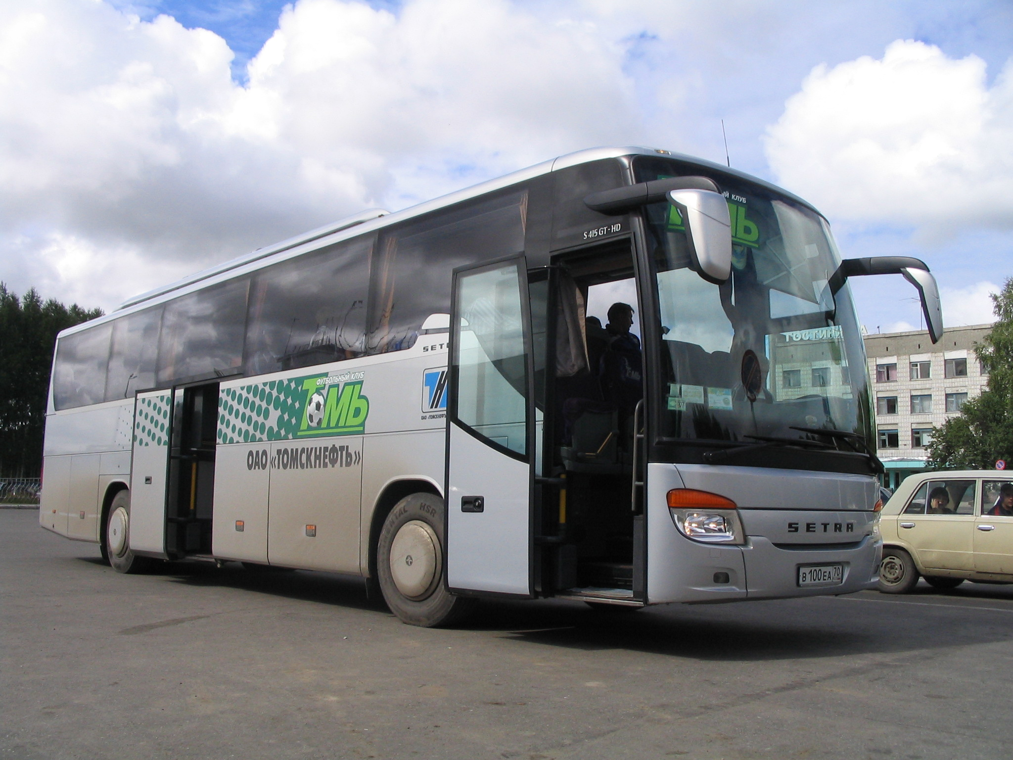 Tom Tomsk football club, Setra bus, автобус ФК Томь